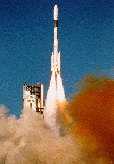 Photo of Ariane 4 rocket launch.